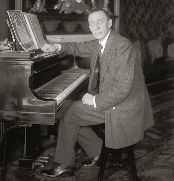 Sergei Rachmaninoff, photo portrait, seated at Steinway grand piano.[1][2]